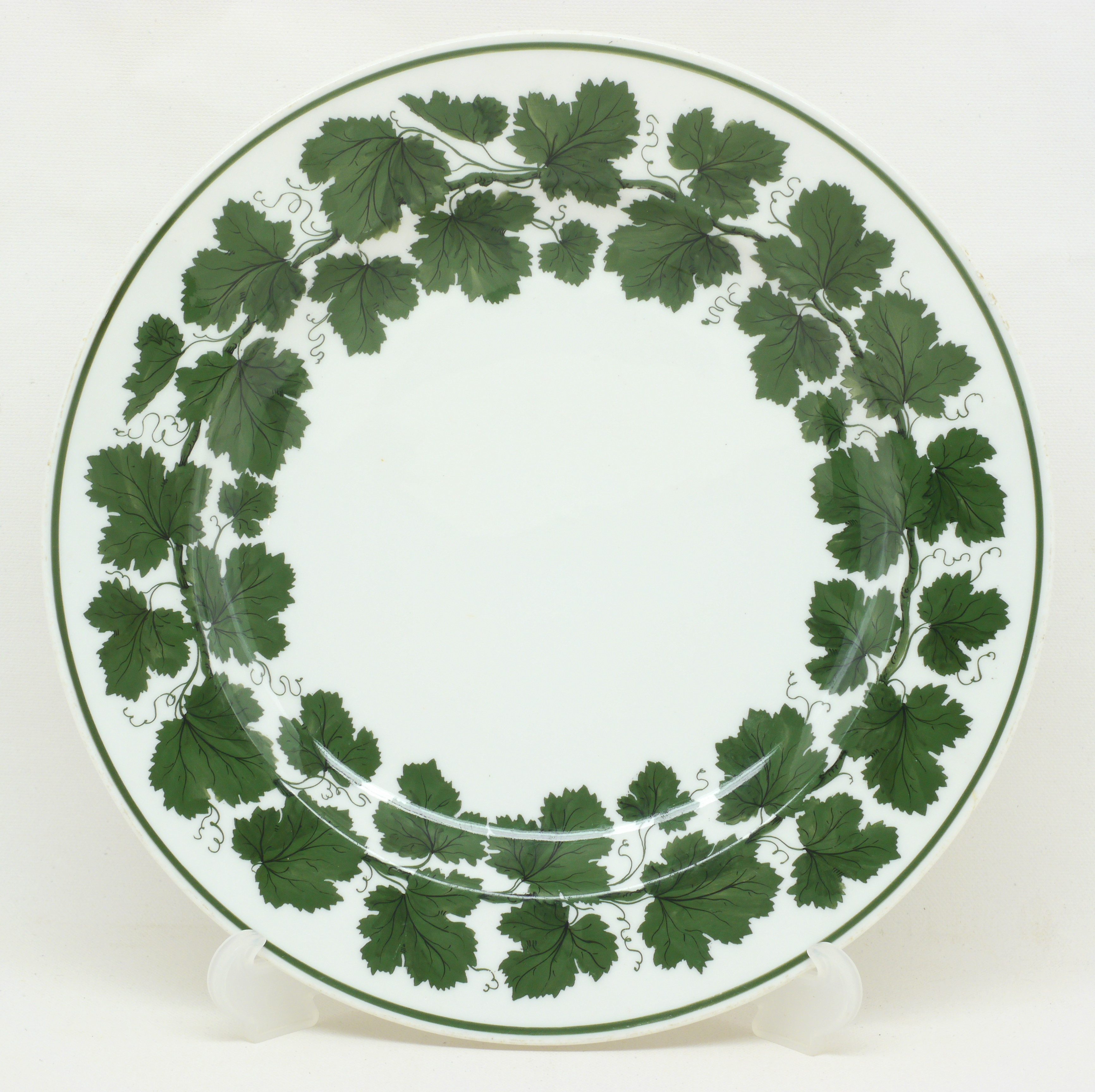 decor from curls of wine leaves KPM Berlin, around 1830